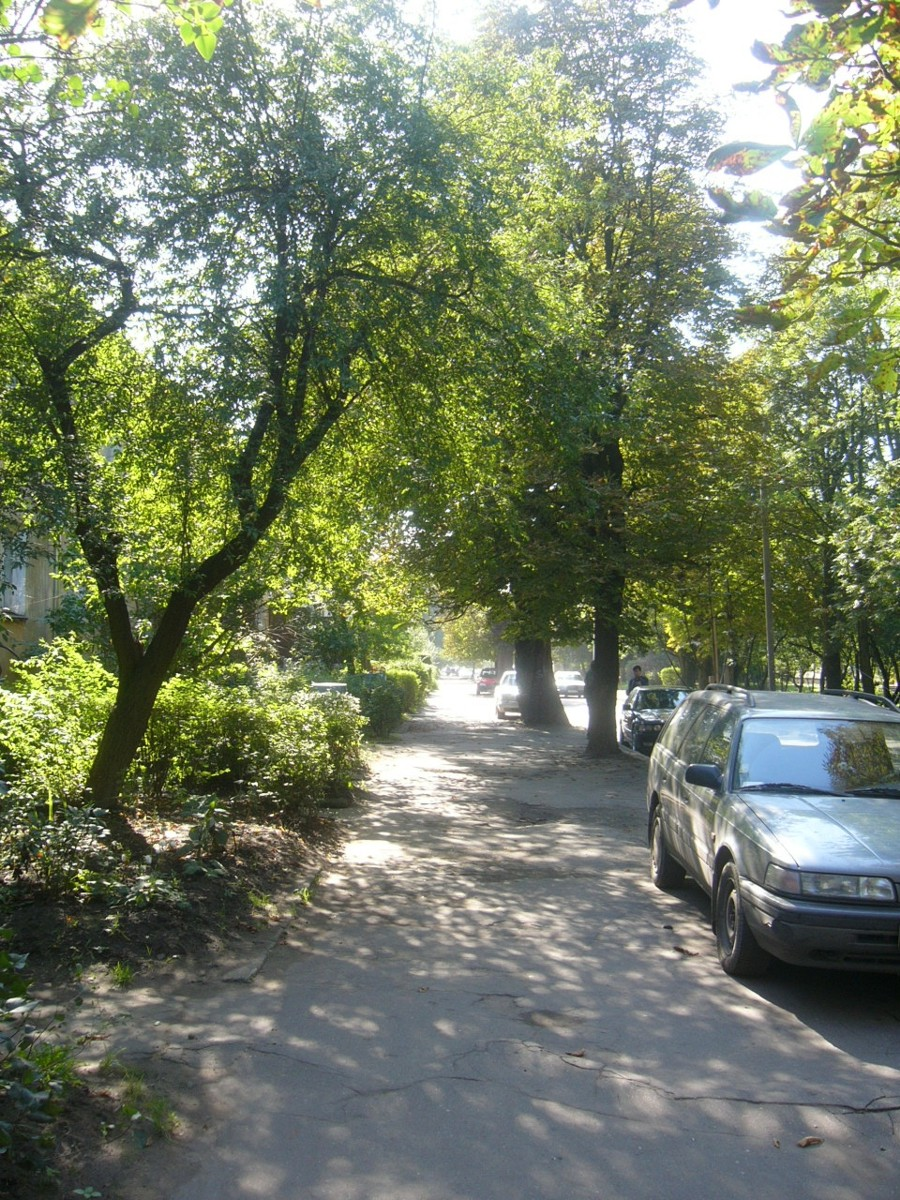 Kaliningrad. Kashtanovaya avenue.